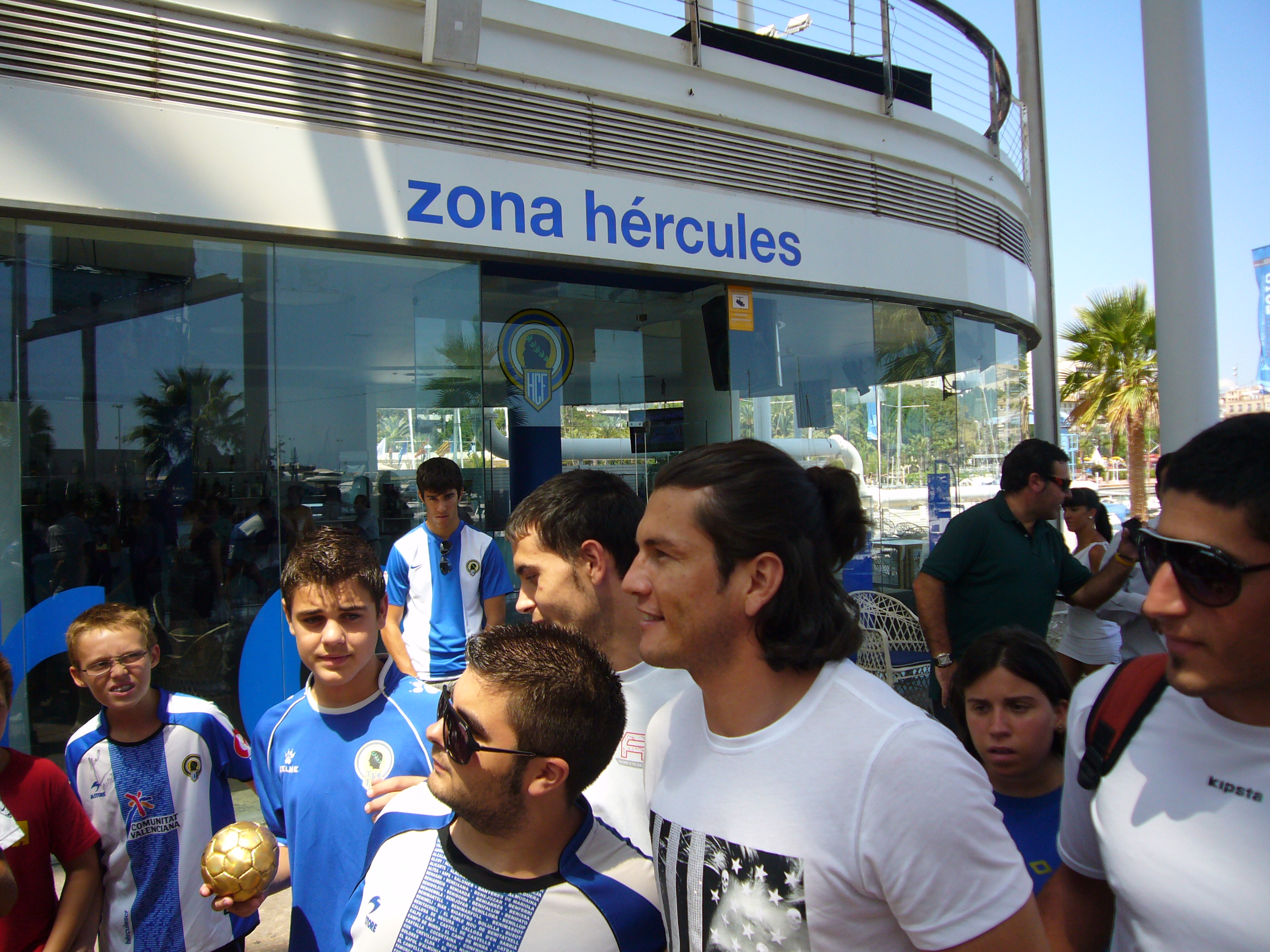 Nelson Haedo Valdez fans attending on the day of your presentation as a player of Hércules CF. Place: Store and Hercules official pub located in the mall Panoramis at the Port of Alicante.